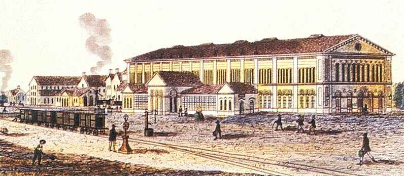 The Indóház (~ House of Departure), first railway station of Budapest